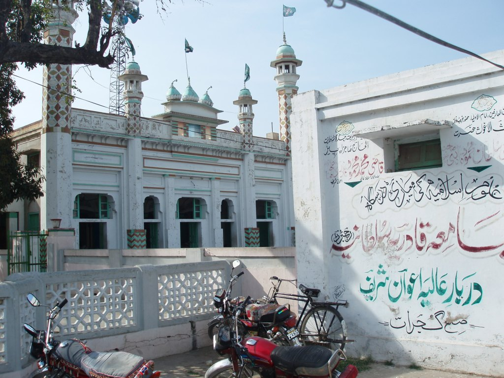 Jamia Masjid Awan Sharif